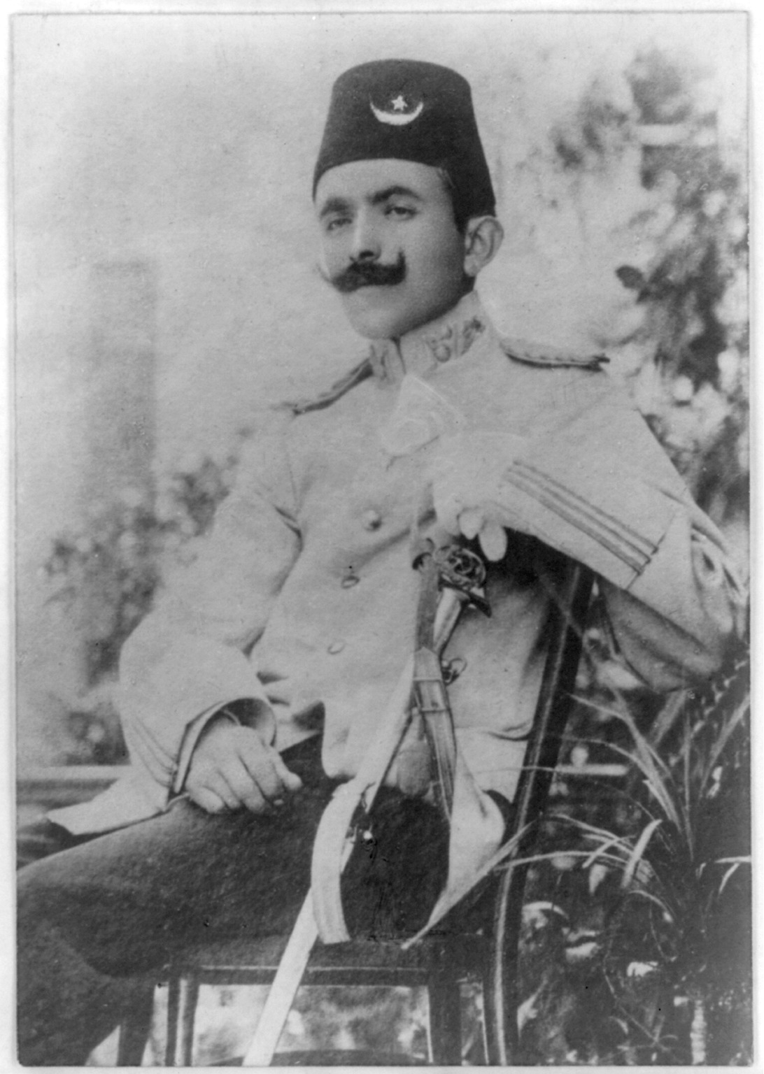 Enver Pasha, 1881?-1922